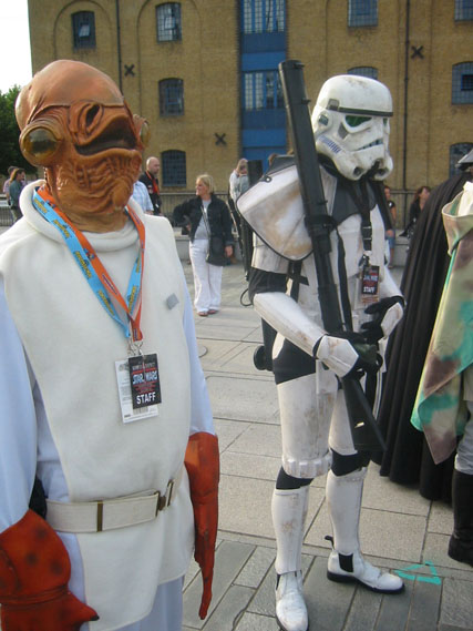 Ackbar makes a rare appearance at Celebration Europe. Read more about Celebration Europe on